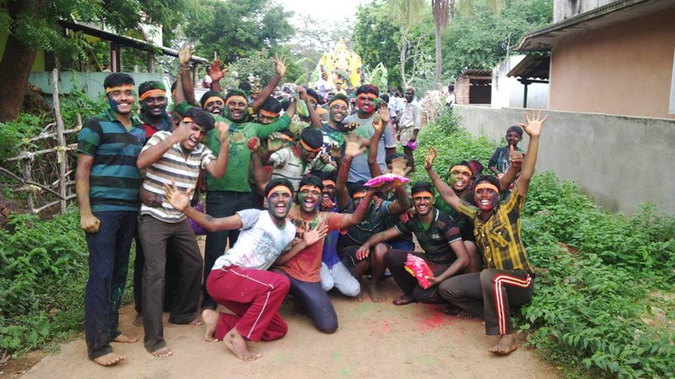 Villages young guys celebrating Ganesa festival wit joy.